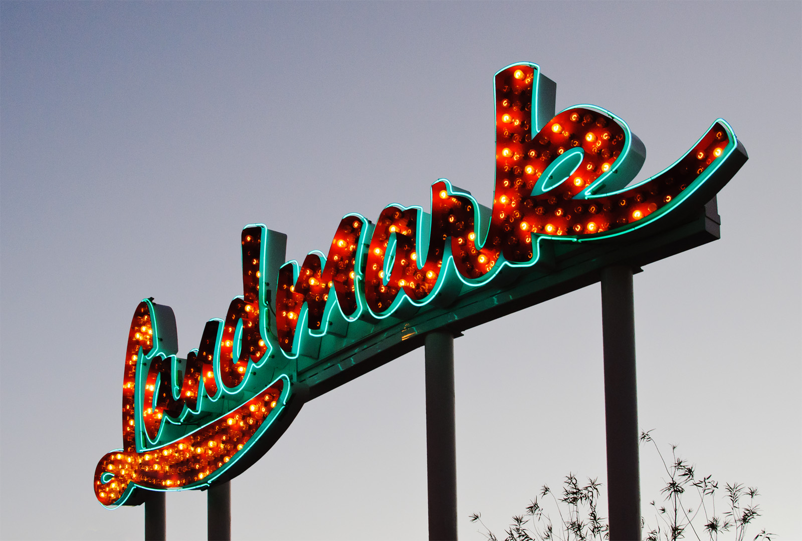 This sign, curated by the Neon Museum, once belonged to, and stands on the site of, the Landmark, a skinny circular hotel tower with about 500 or so rooms, on the northwest corner of Paradise Road and Convention Center Drive. Opened in the late 1960s, the exterior was used for James Bond's stunt scenes in the 1971 movie Diamonds Are Forever, serving as the upper floors of the Whyte House. The Landmark is no more; due to its relatively small size, it had no chance of competing against megaresorts, and soon after the 1989 opening of the Mirage, it closed in 1990, and was eventually razed in 1995 to make room for the Convention Center's extra parking.